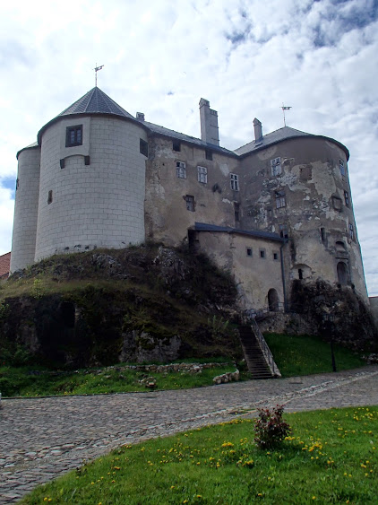 Slovenská Ľupča castle